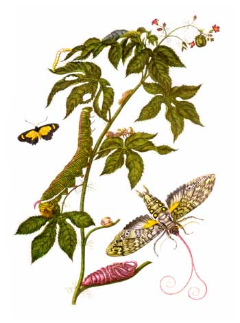 insectes Surinam